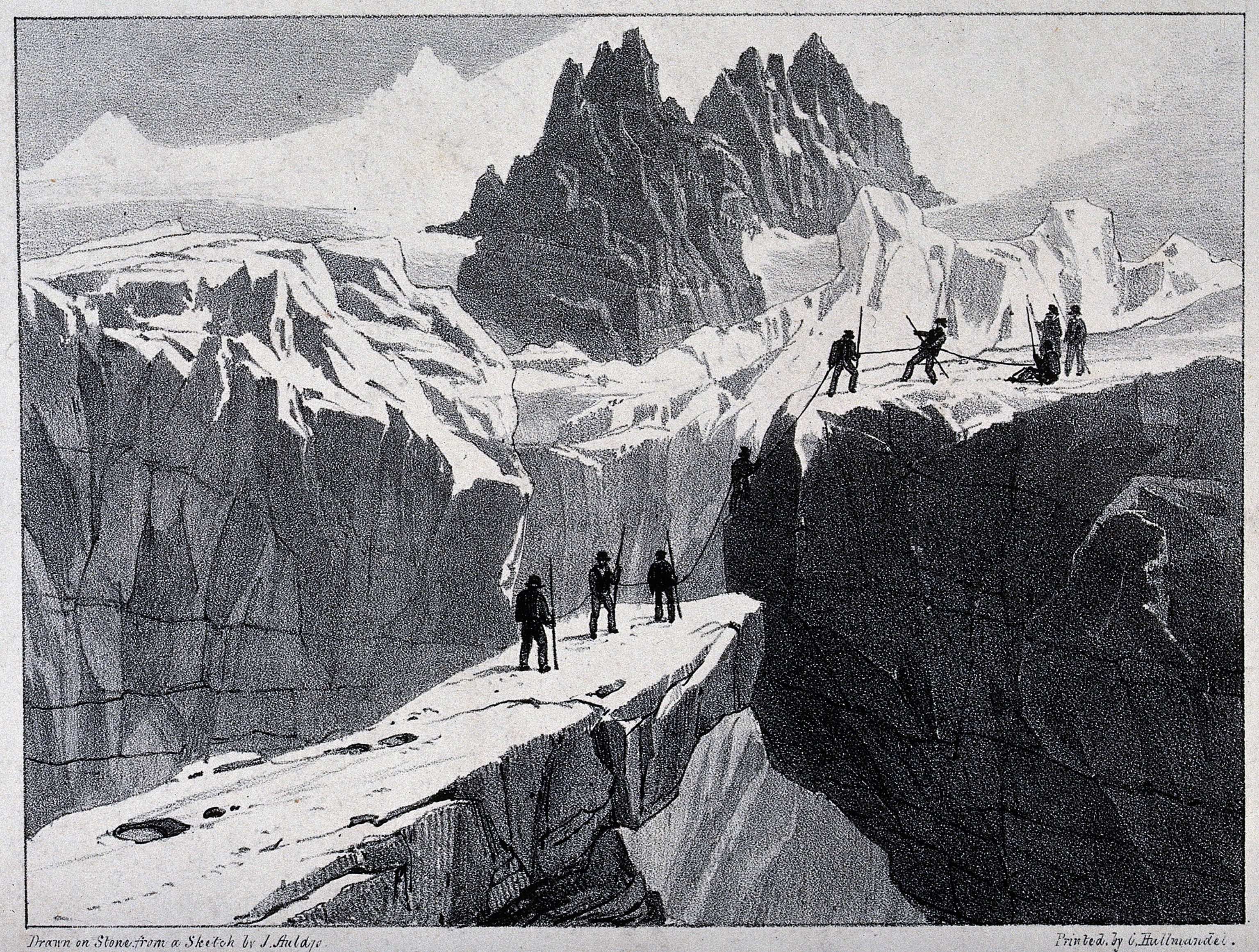 The ascent of Mont Blanc by John Auldjo's party in 1827: mountaineers scaling a wall of ice above a precipice. Lithograph after J. Auldjo, 1828. Iconographic Collections Keywords: john auldjo; ic; mont blanc; John Auldjo